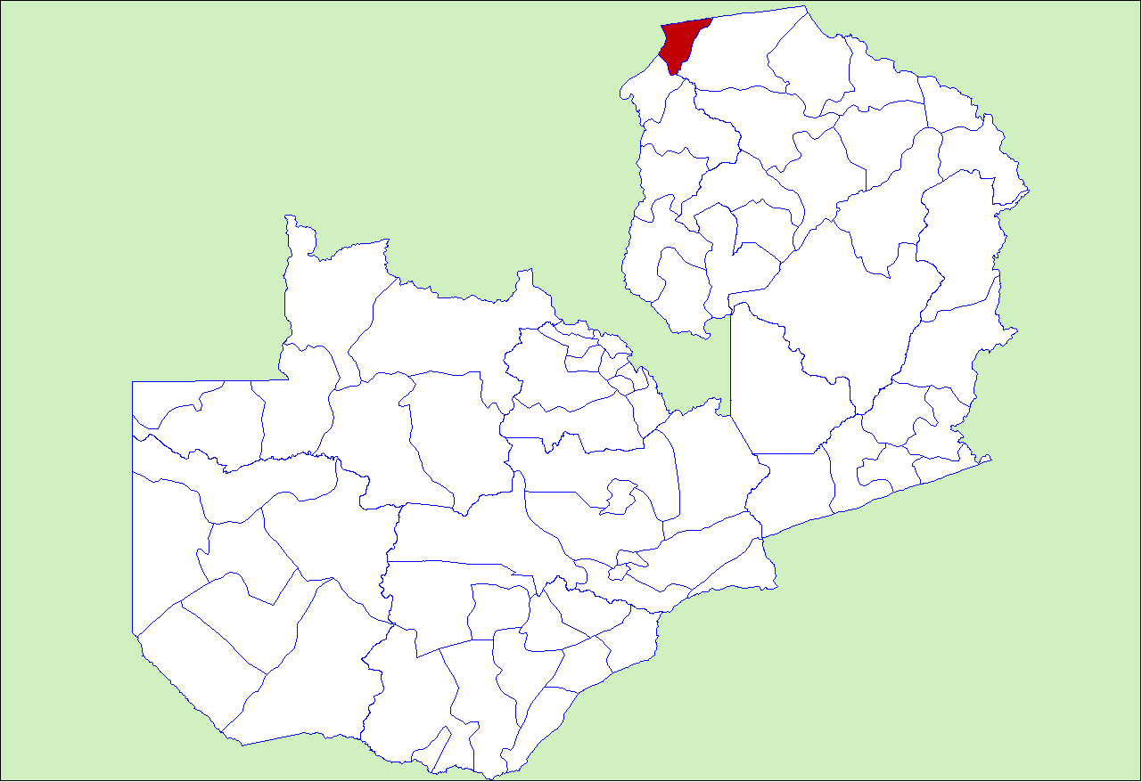 District locator in Zambia